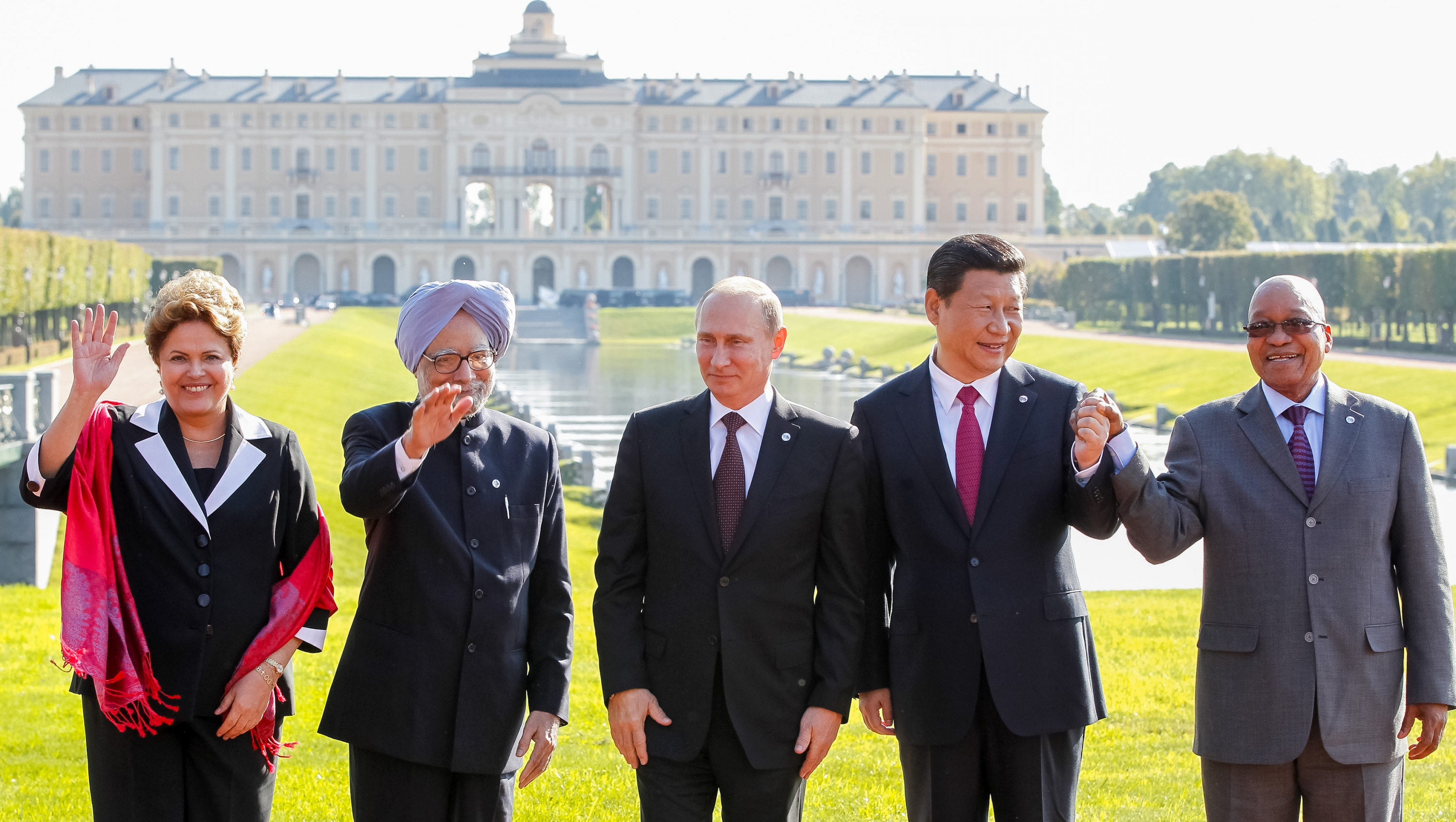 BRICS leaders at 2013 G-20 Saint Petersburg summit: Dilma Rousseff, Manmohan Singh, Vladimir Putin, Xi Jinping and Jacob Zuma.